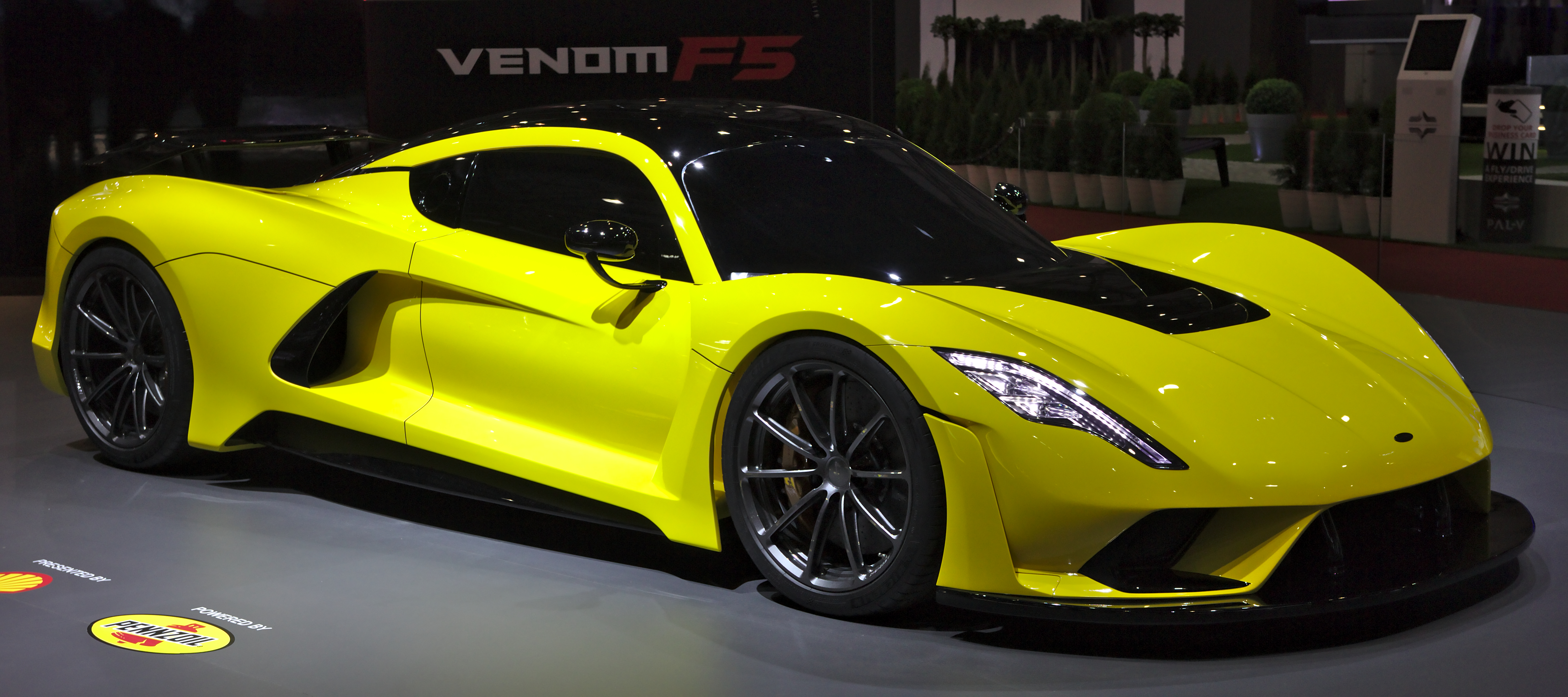 Hennessey Venom F5 at Geneva Motorshow 2018